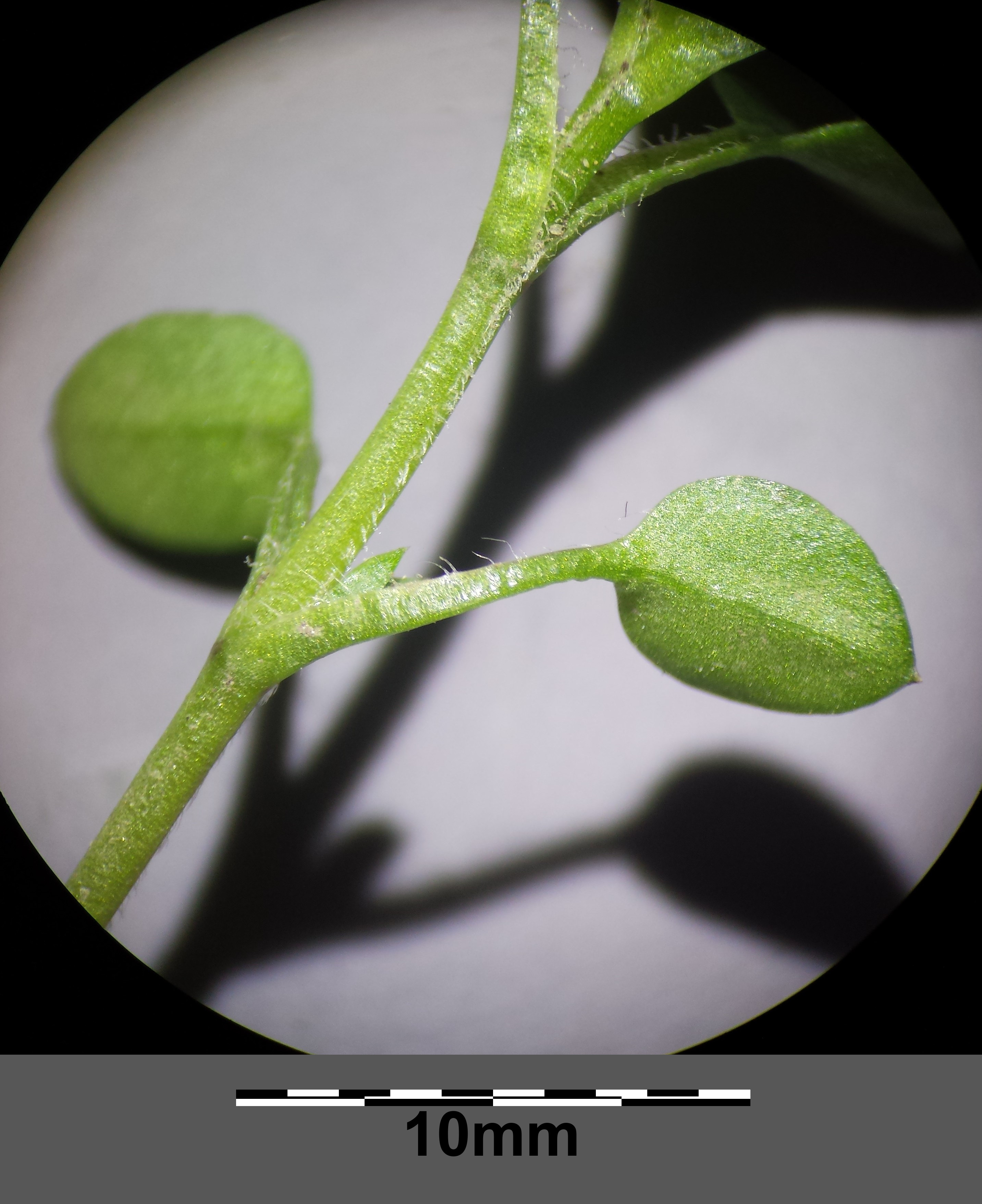 Stem with leaves Taxonym: Stellaria pallida ss Fischer et al. EfÖLS 2008 ISBN 978-3-85474-187-9 Location: Sinawastingasse, Vienna-Floridsdorf - ca. 160 m a.s.l. Habitat: ruderal lawn